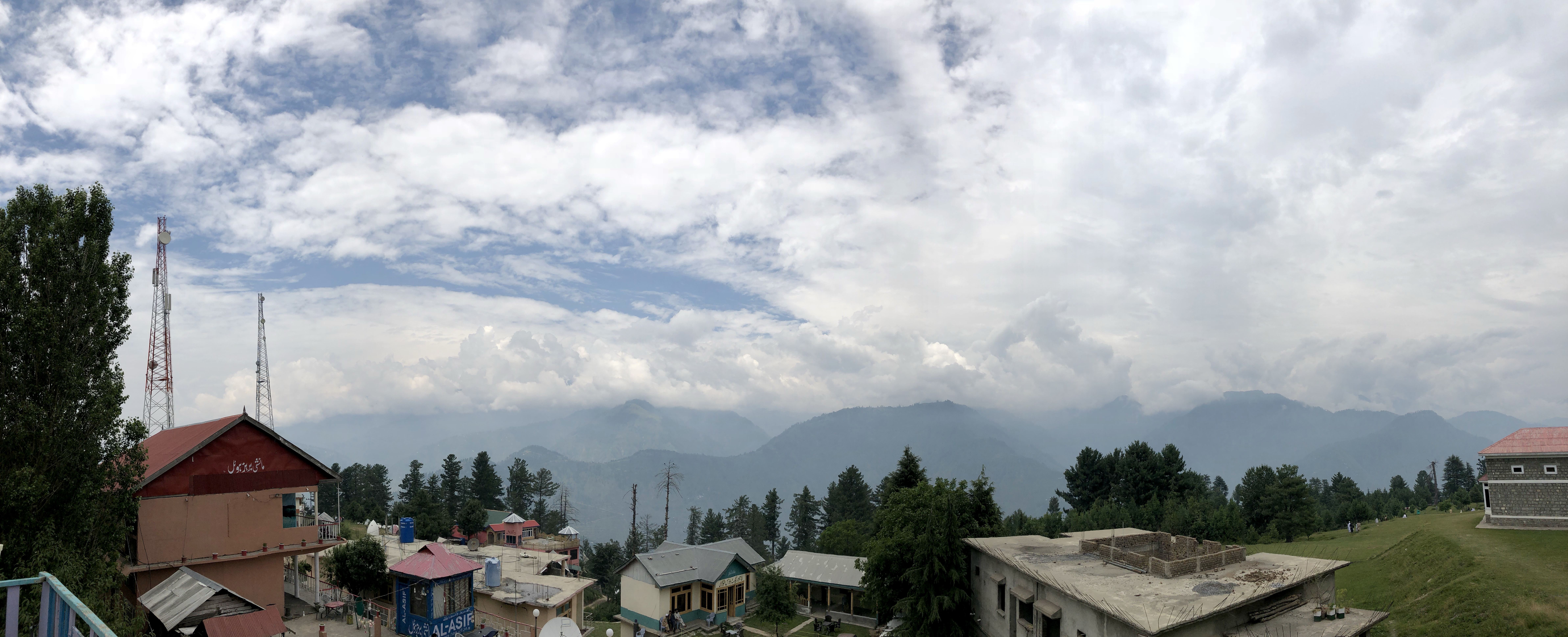 A Panorama of the shogran from a hotel terrace.